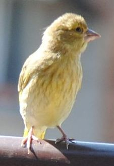 European Greenfinch, young bird